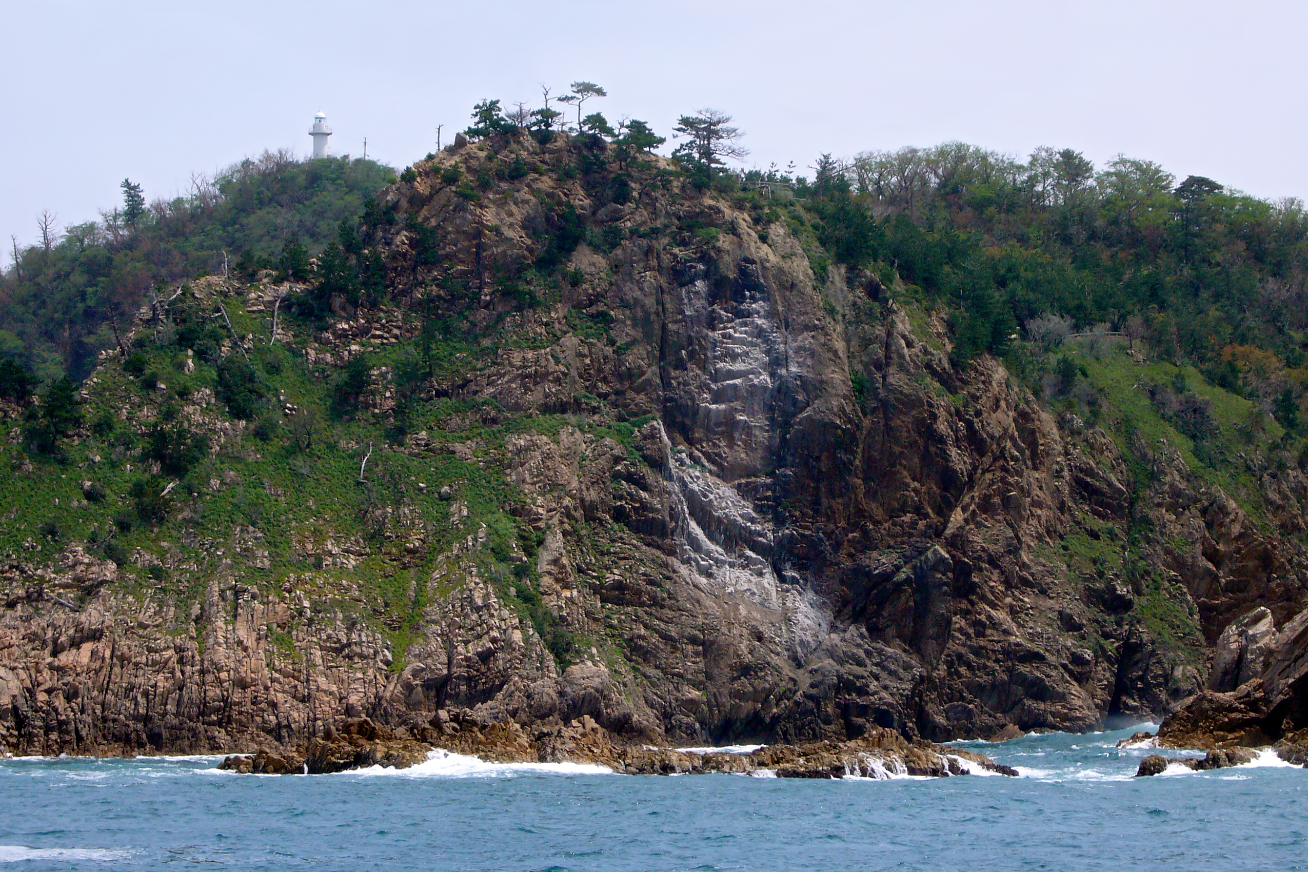 Uradome Coast in Iwami, Tottori prefecture, Japan